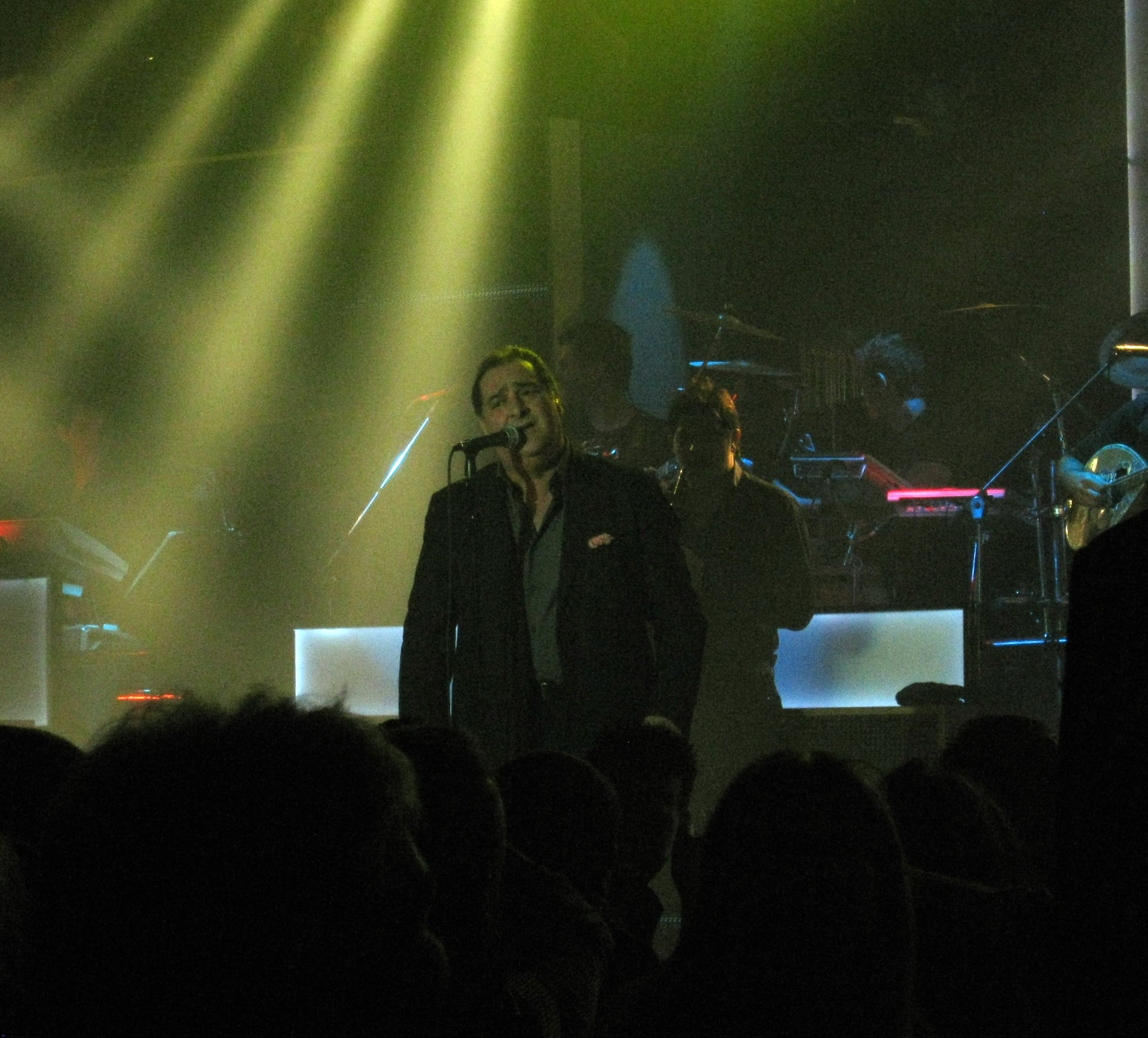 Vasilis Karras